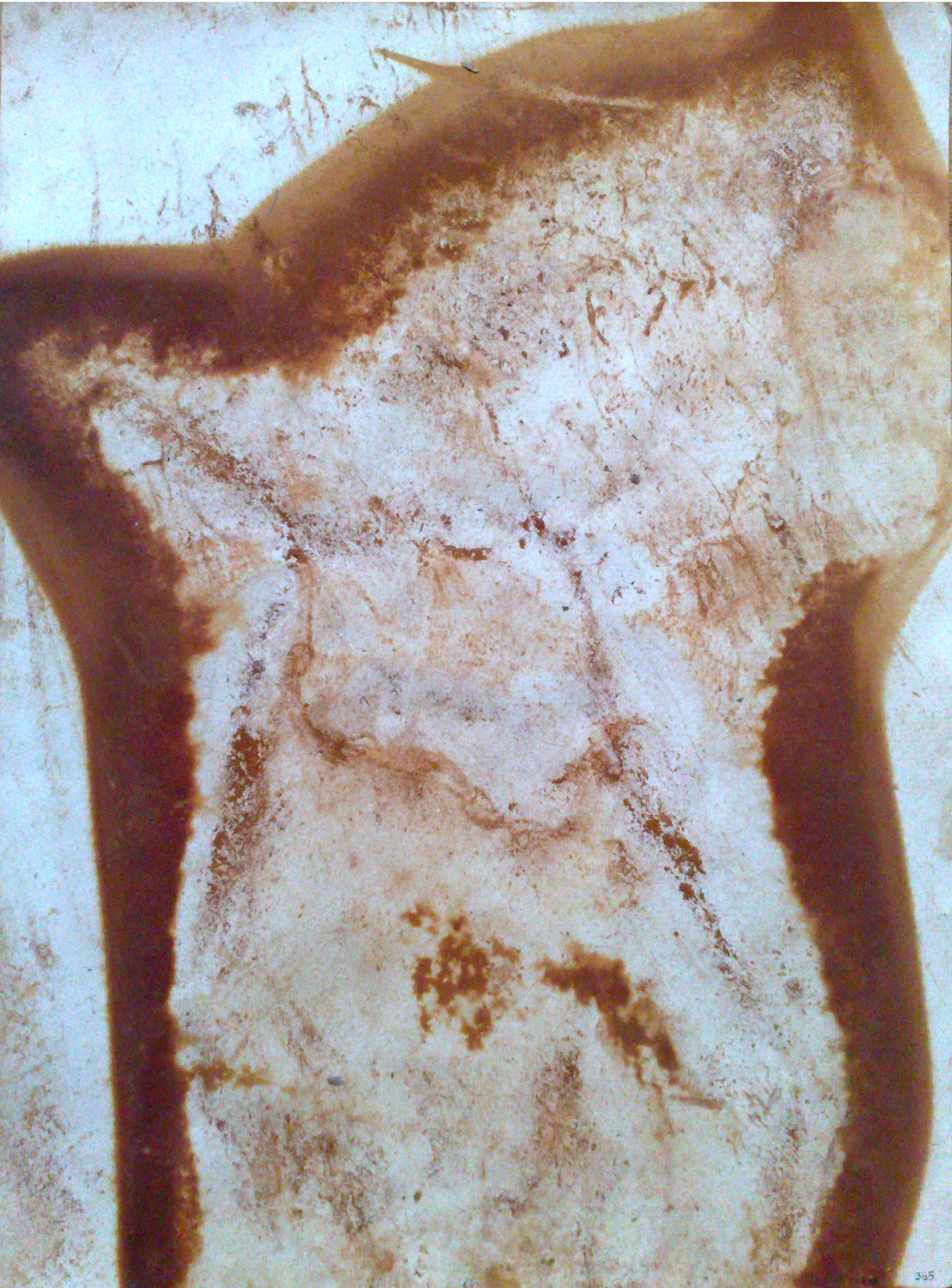 Natural Art Nr. 365. Created by Tylicki using Nature. 13 days on a ground near Krísuvík Hot springs, Iceland. Watercolor paper. Size: 473 X 354 mm. 02/07 - 15/07 1979